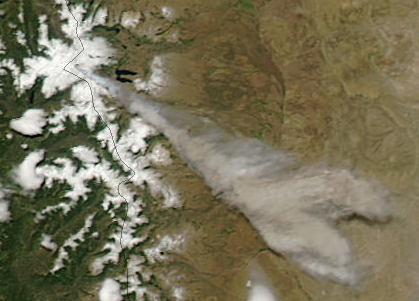 Eruption of Copahue volcano, Chile (afternoon overpass)